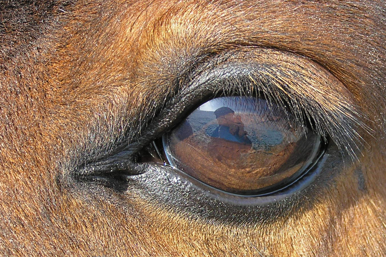 Eye of a Horse (Andalusian)